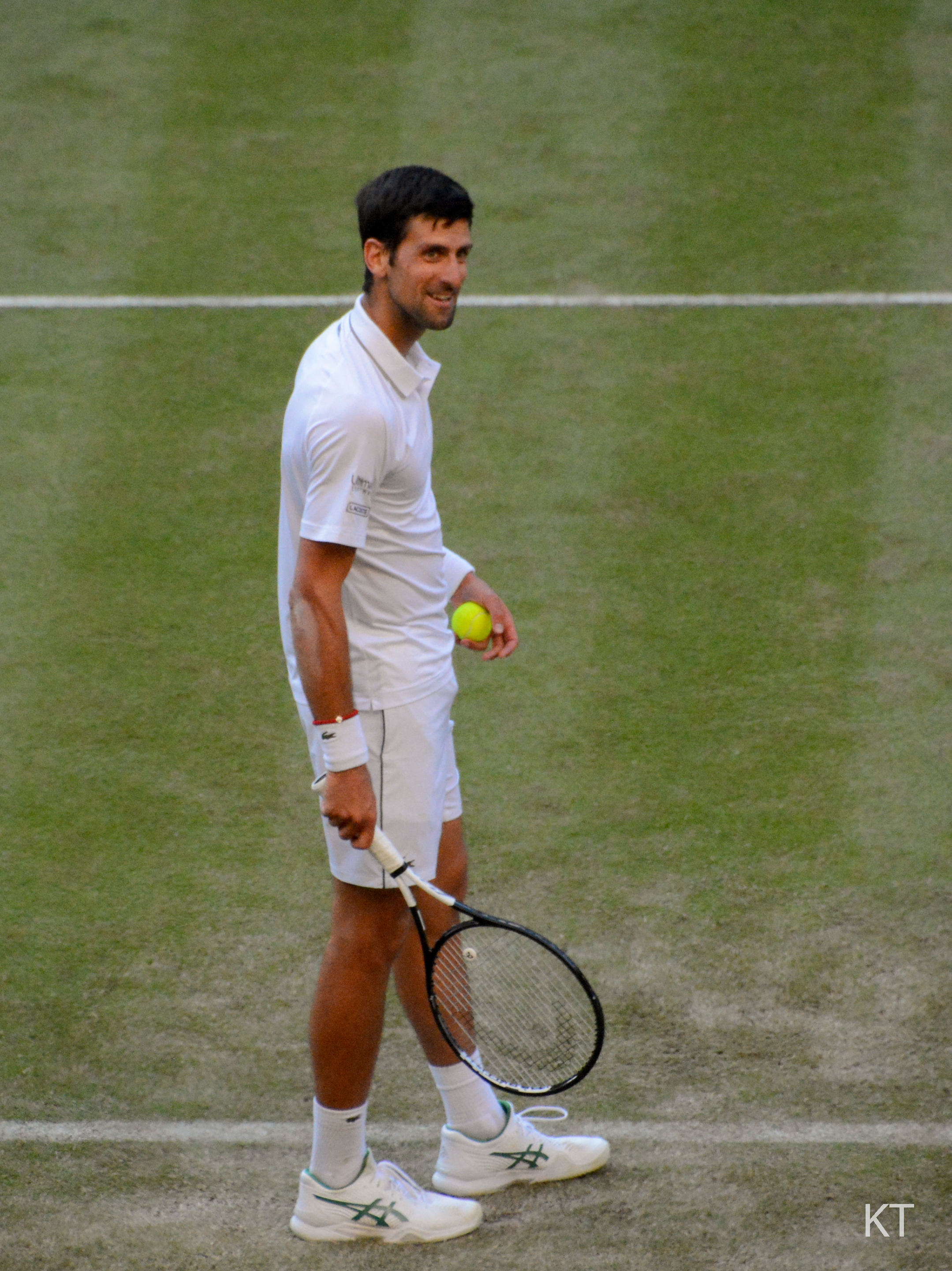 Centre Court. Day 3 of Wimbledon 2019.